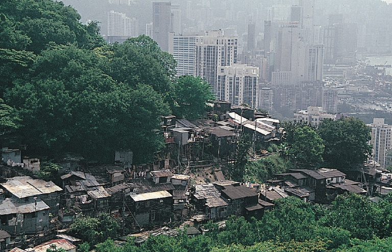 An area of shanty housing not far from the commercial centre of Hong Kong, China.